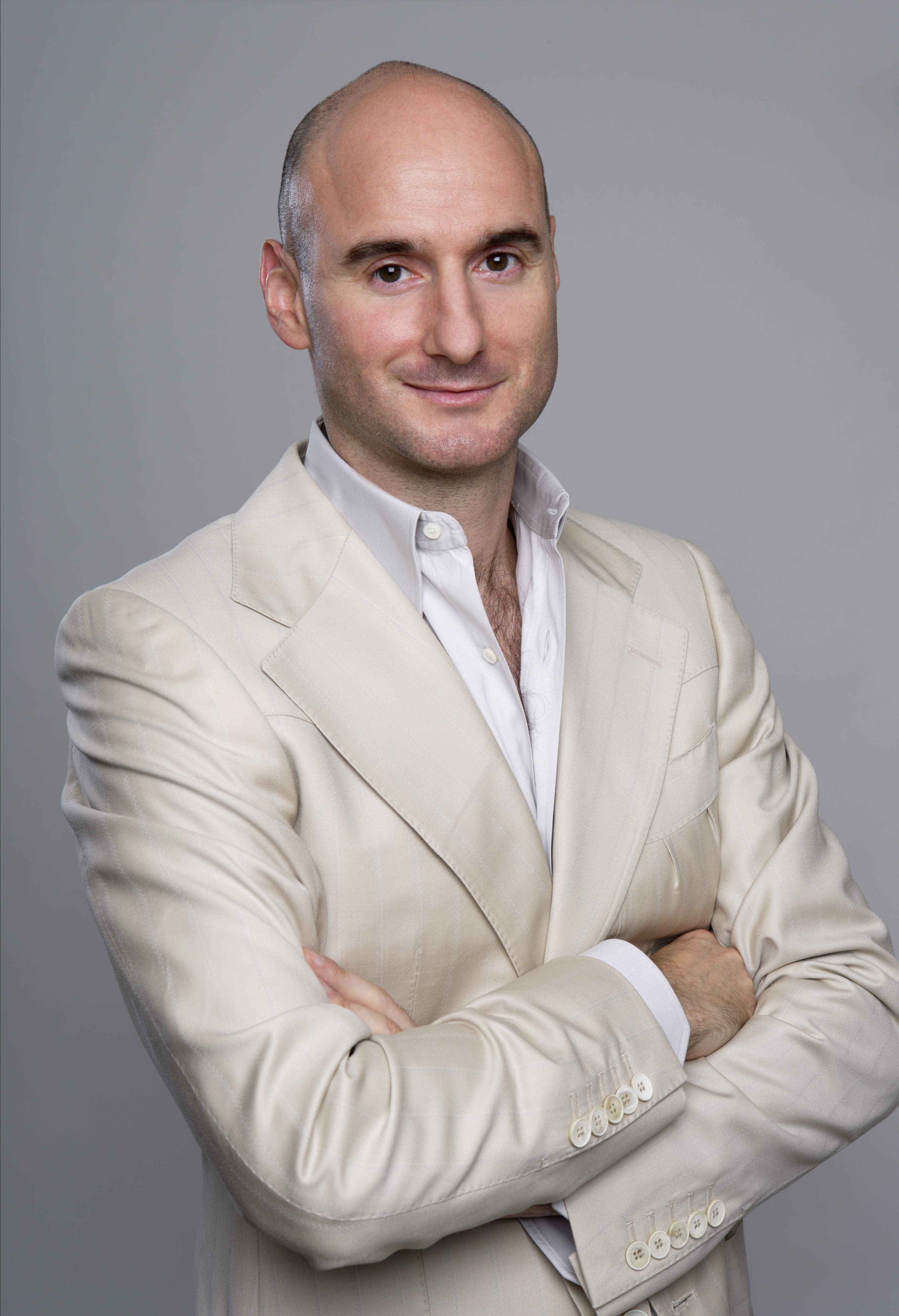 Self-portrait of Benjamin Giorgio Genocchio, an Australian-born non-fiction writer and art critic resident in New York who writes for the New York Times.